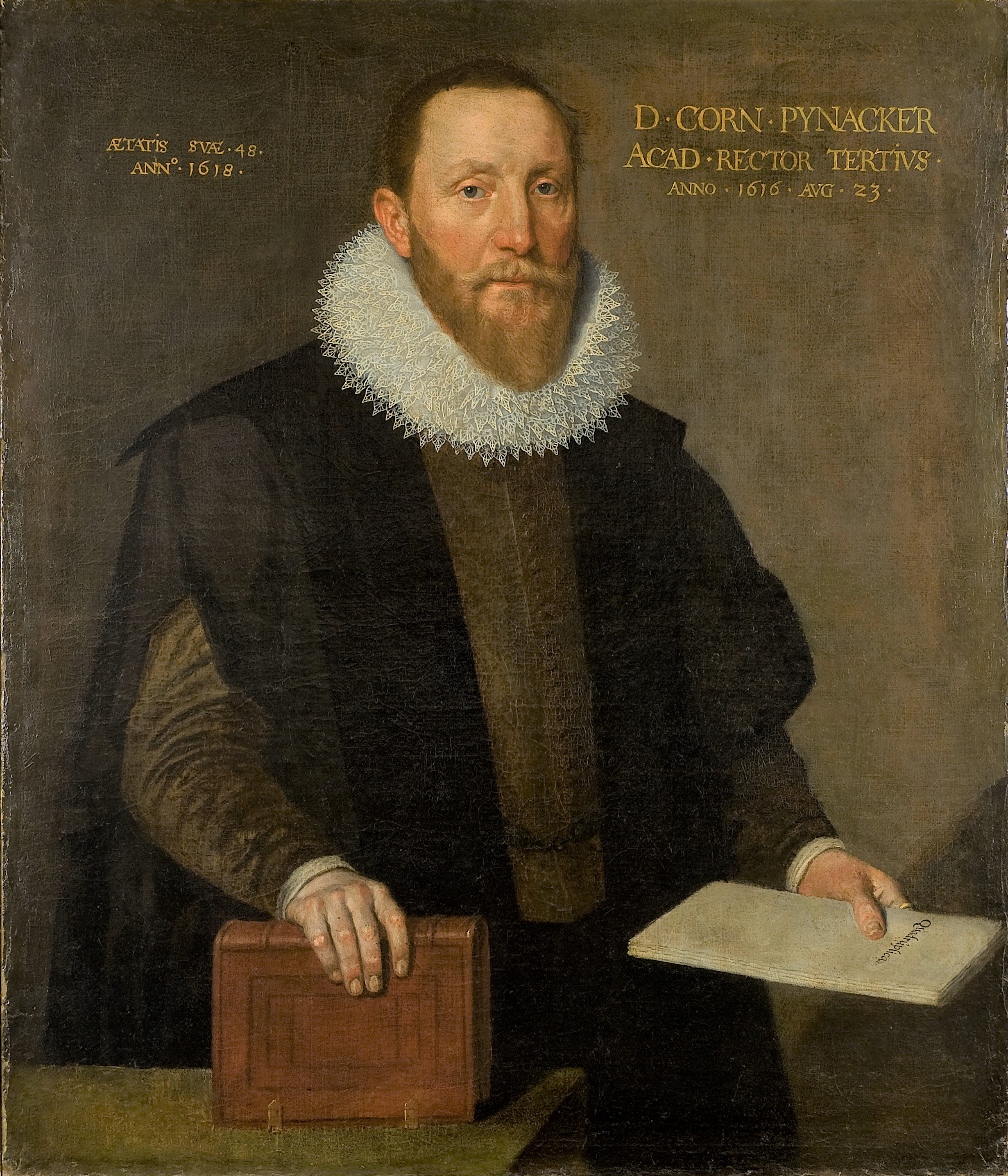 Portrait of Cornelis Pijnacker. ÆTATIS SUÆ.48. ANNº. 1618., Rechtsboven: D.CORNPIJNACKER ACAD.RECTOR TERTIVS.ANNO.1616.AVG.23.